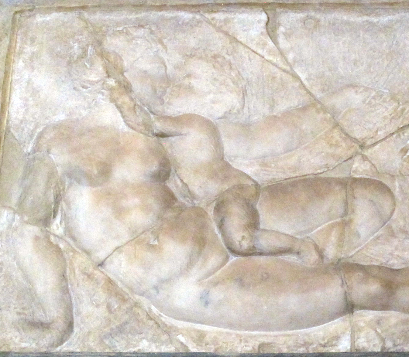 Courtyard of Palazzo Medici-Riccardi, Florence